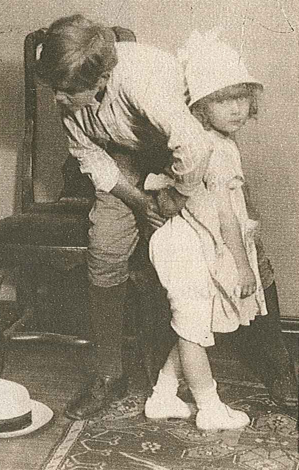 Swedish child actors Palle Brunius and Eyvor Lindberg in the 1920 film Ombytta roller, directed by Pauline Brunius.